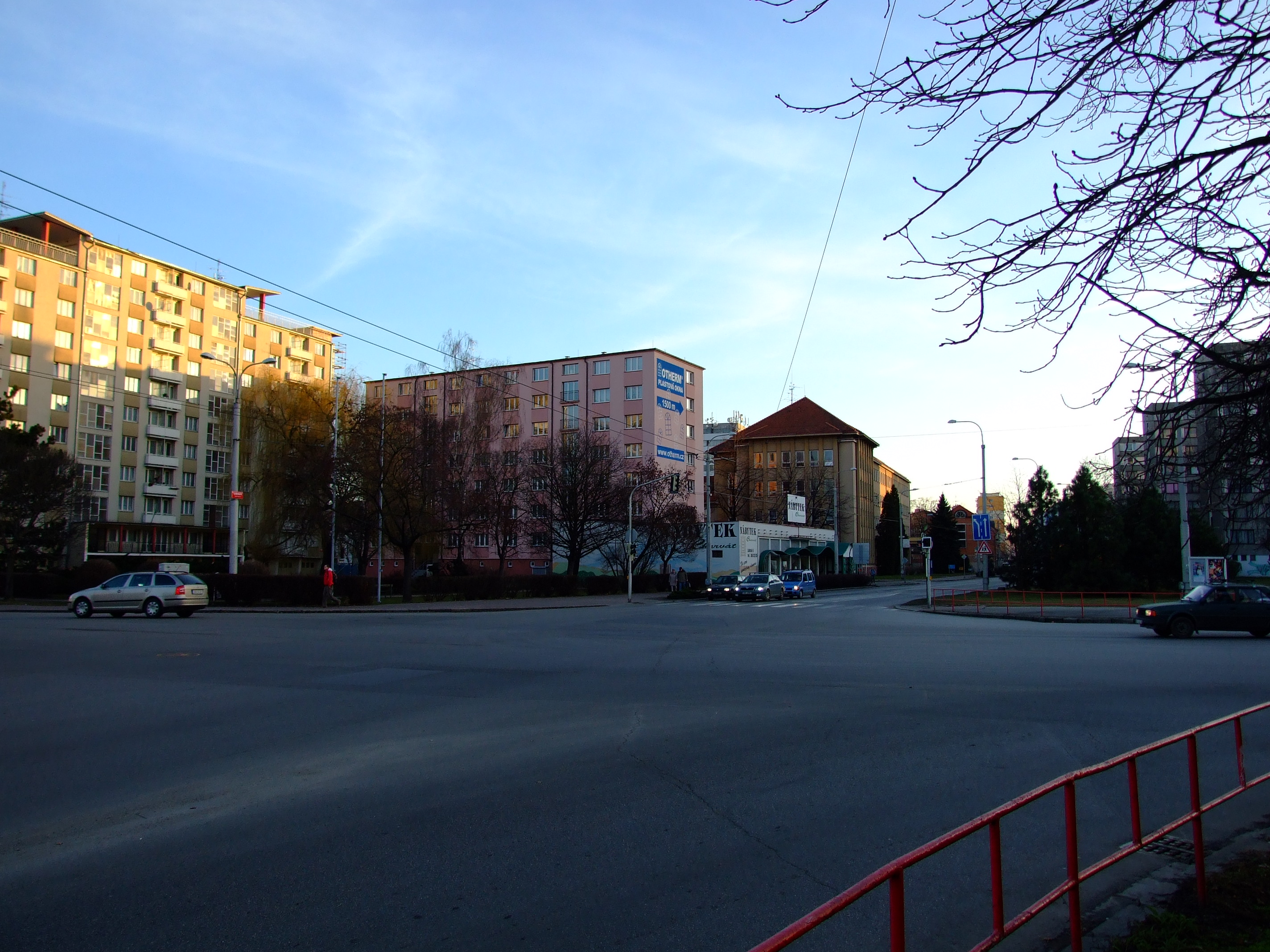 Čechova St, České Budějovice, Czech Republic